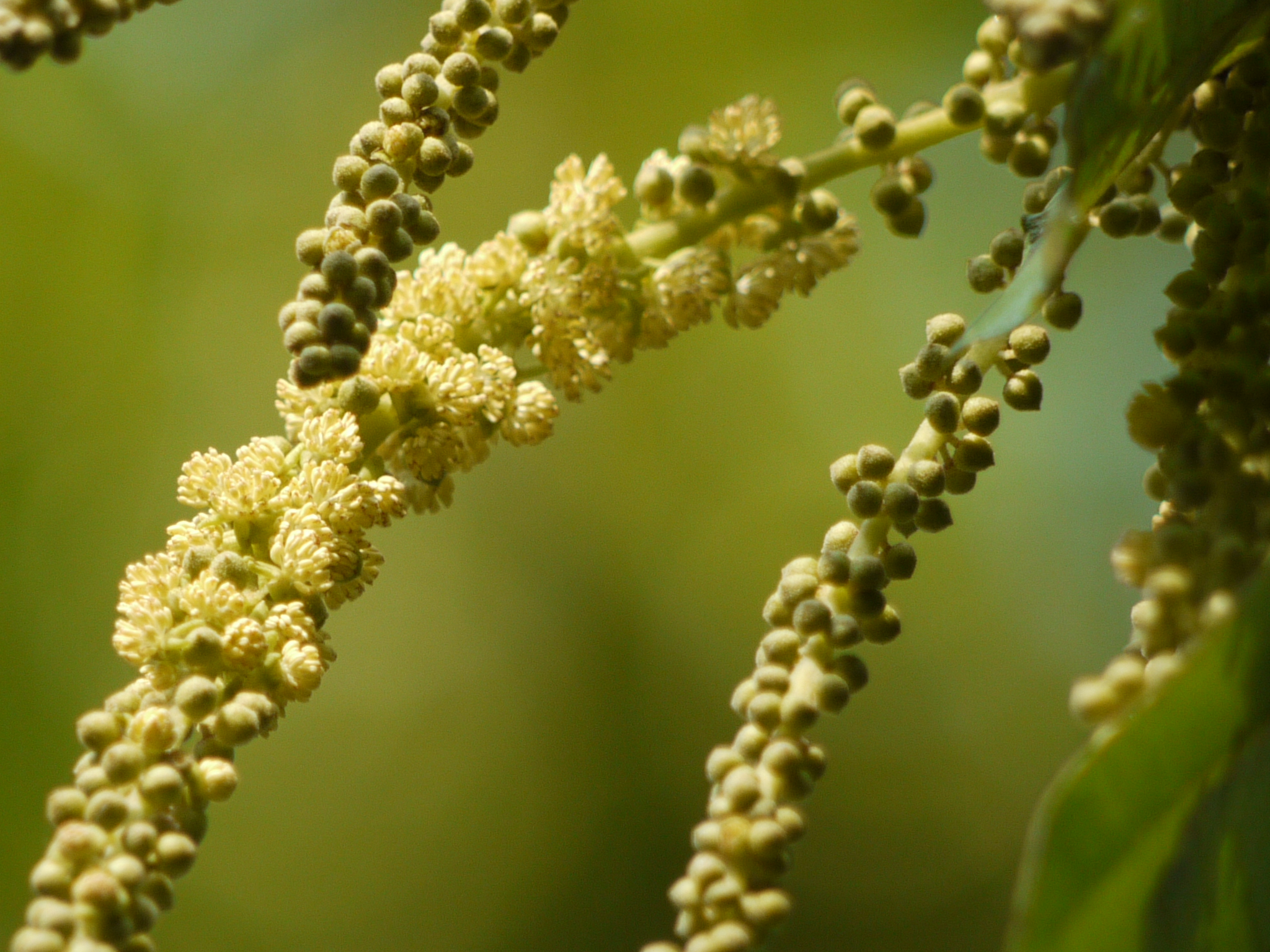 Euphorbiaceae (castor, euphorbia, or spurge family) » Mallotus philippensis mal-LOH-tus -- meaning fleecy, referring to the seed capsule fil-lip-EN-sis -- of or from the Philippines; also spelled philippinensis commonly known as: dyer's rottlera, kamala dye tree, monkey face tree, orange kamala, red kamala, scarlet croton • Bengali: কমলা kamala • Hindi: कामला kamala, रैनी raini, रोहन rohan, रोहिनी rohini, सिन्धुरी sinduri • Kannada: ಕುಮ್ಕುಮದ ಮರ kunkuma-damara • Malayalam: ചെങ്കൊല്ലി cenkolli, കുങ്കുമപ്പൂമരം kunkumappuumaram, കുരങ്ങുമഞ്ഞശ് kurangumanjas, നാവട്ട naavatta, നൂറിമരം nuurimaram • Marathi: केशरी kesari, शेंदरी shendri • Sanskrit: काम्पिल्यक kampilyaka • Tamil: கபிலப்பொடி kapila poti, குரங்குமஞ்சணாறி kuranku-mañcanari • Telugu:కుంకుమ చెట్టు kunkuma-chettu Native to: China, India, Sri Lanka, Myanmar, Vietnam, Malaysia, Philippines, Australia References: M.M.P.N.D. • World Agroforestry Centre • Forest Flora of Andhra Pradesh